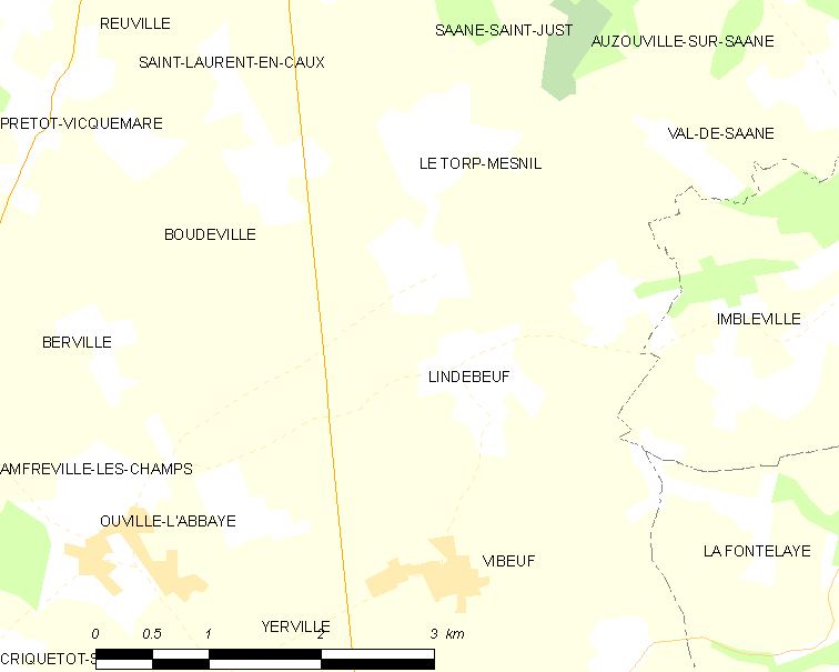 Map of French municipality Lindebeuf